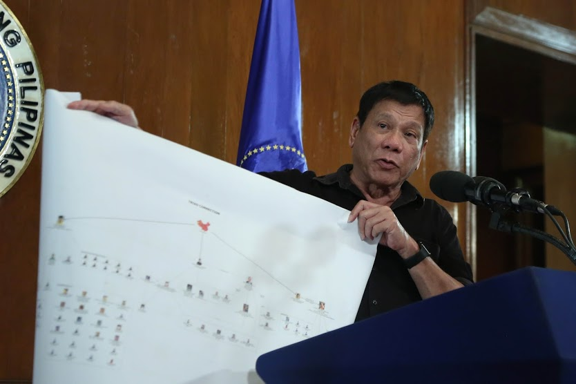 President Rodrigo Duterte presents a chart illustrating a drug trade network of high level drug syndicates in the Philippines during a press conference, July 7, 2016